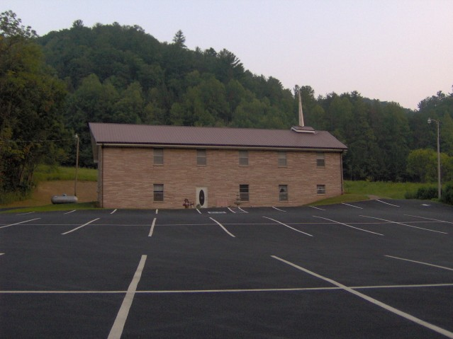 The Pigeon Valley Church in Hartford, Tennessee. The church was organized in 1889 when Hartford was called "Pigeon Valley." The town was renamed Hartford in 1905.